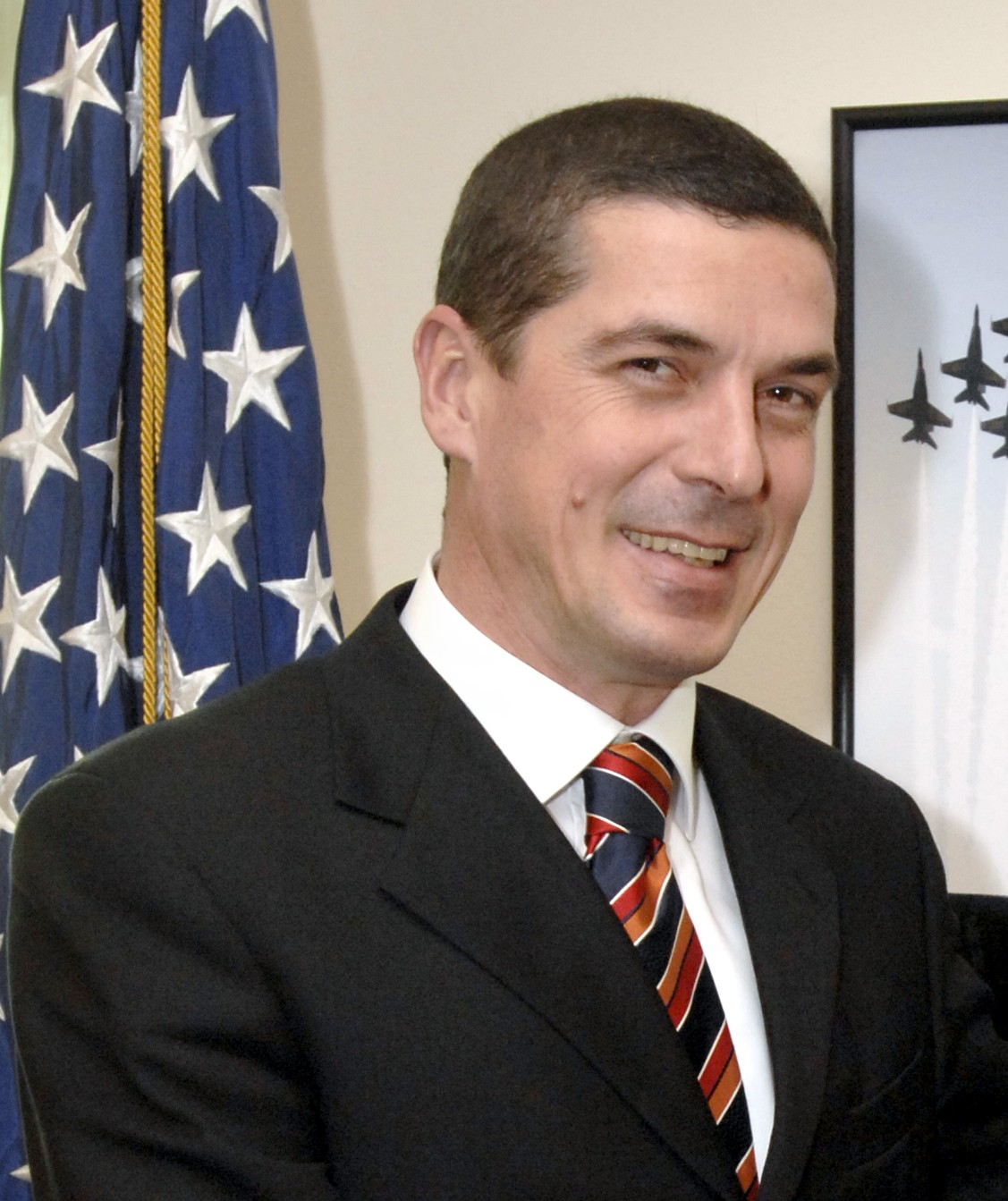 Albanian Minister of Defense Gazmend Oketa, cropped from photo posing with Deputy Secretary of Defense Gordon England at the Pentagon May 22, 2008. The two defense leaders will hold talks on a range of regional security issues.